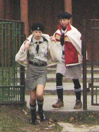 Only the guides from image:Łosiniec.jpg (there are 5 Łosiniec's in Poland, this is Tomaszów Lubelski) original made by: User:Szater